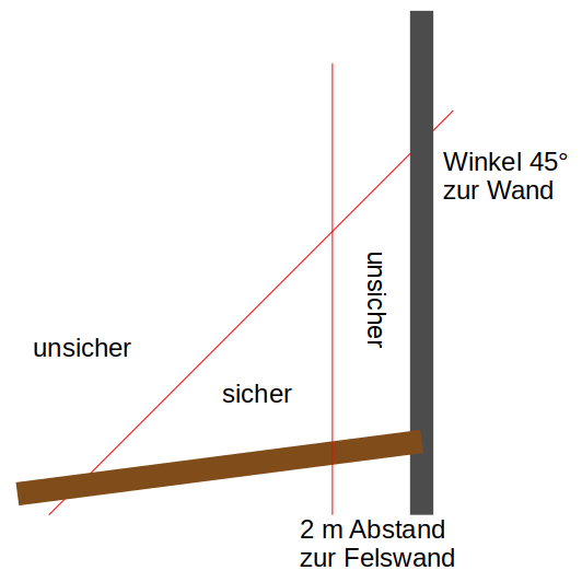 The area denoted as "safe" is safe from direct lightning strikes. The two meter distance from the rock face helps avoid indirect lightning strikes from the rock. Other risks (such as rock fall) are not considered here. Source: An alpinism textbook from the Swiss Alpine Club. Winkler / Brehm / Haltmeier: Bergsport Sommer. SAC-Verlag, 3. revidierte Auflage (2010). ISBN 978-3-85902-342-0.